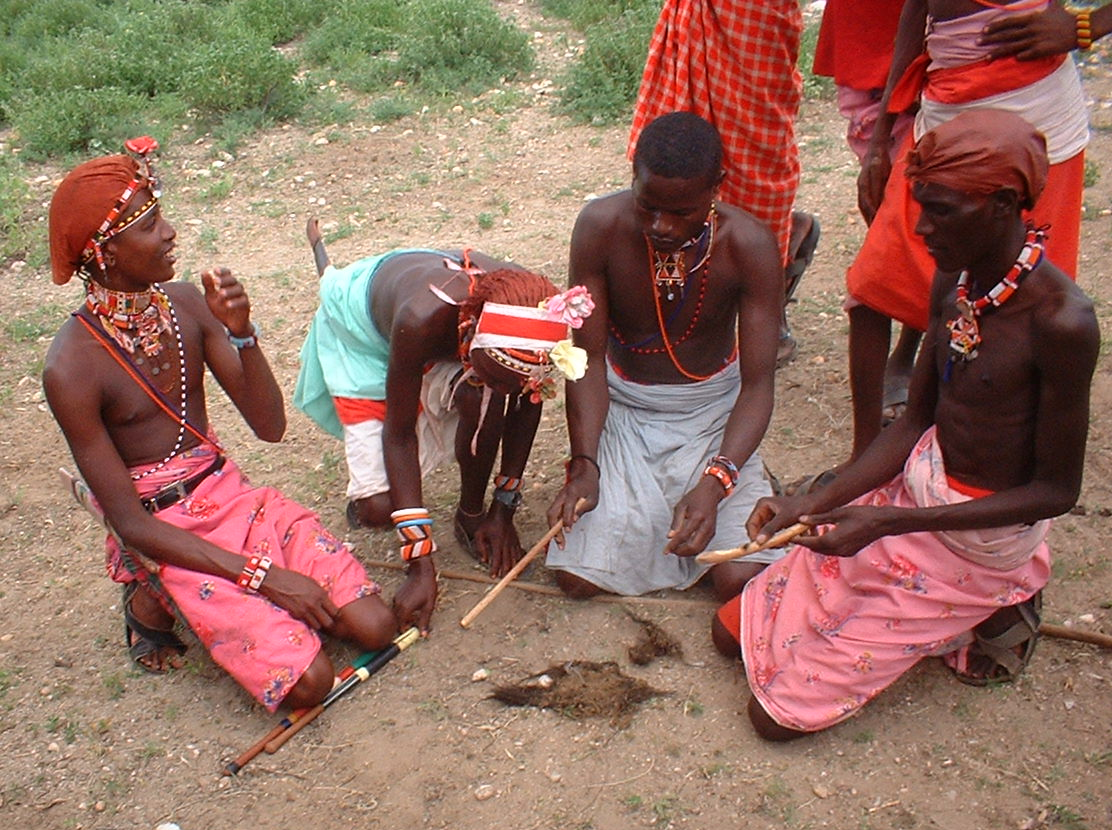 Samburu men lighting a fire, Kenya